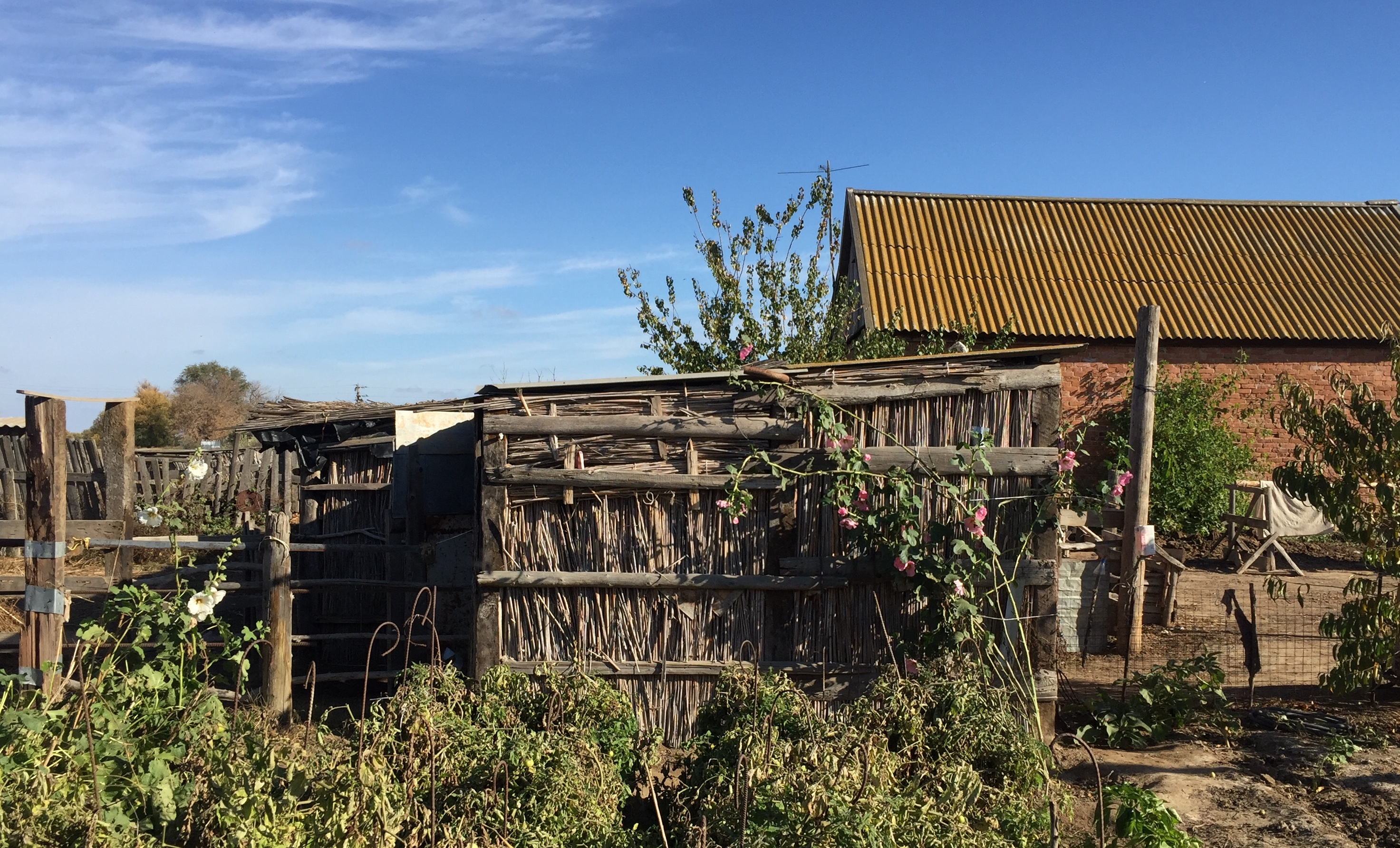 The village of Novy Rychan, Astrakhan Oblast, Russia